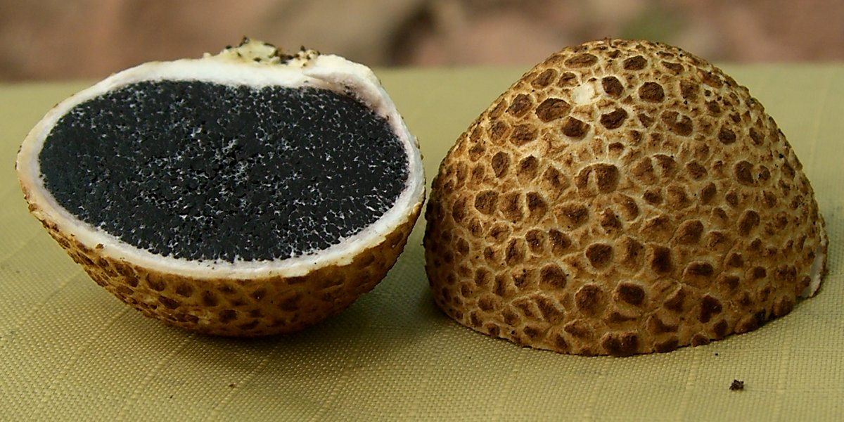 Scientific Name: Scleroderma citrinum Common Name: Pigskin Poison Puffball Certainty: positive (notes) Location: Central Appalachians; George Washington NF; Shenandoah Mt